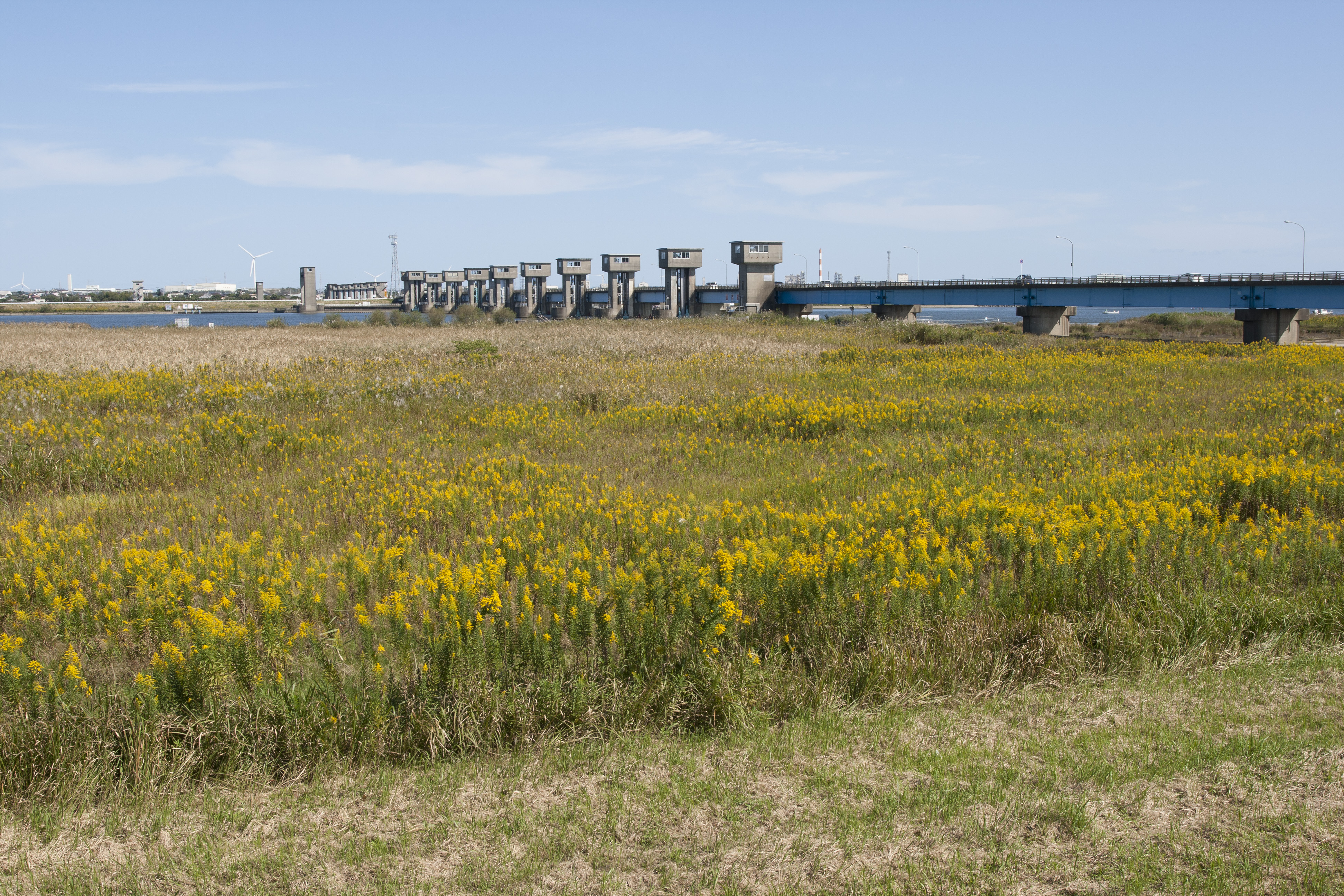 Tone River Estuary Weir, Chiba and Ibaraki Prefectures, Japan.